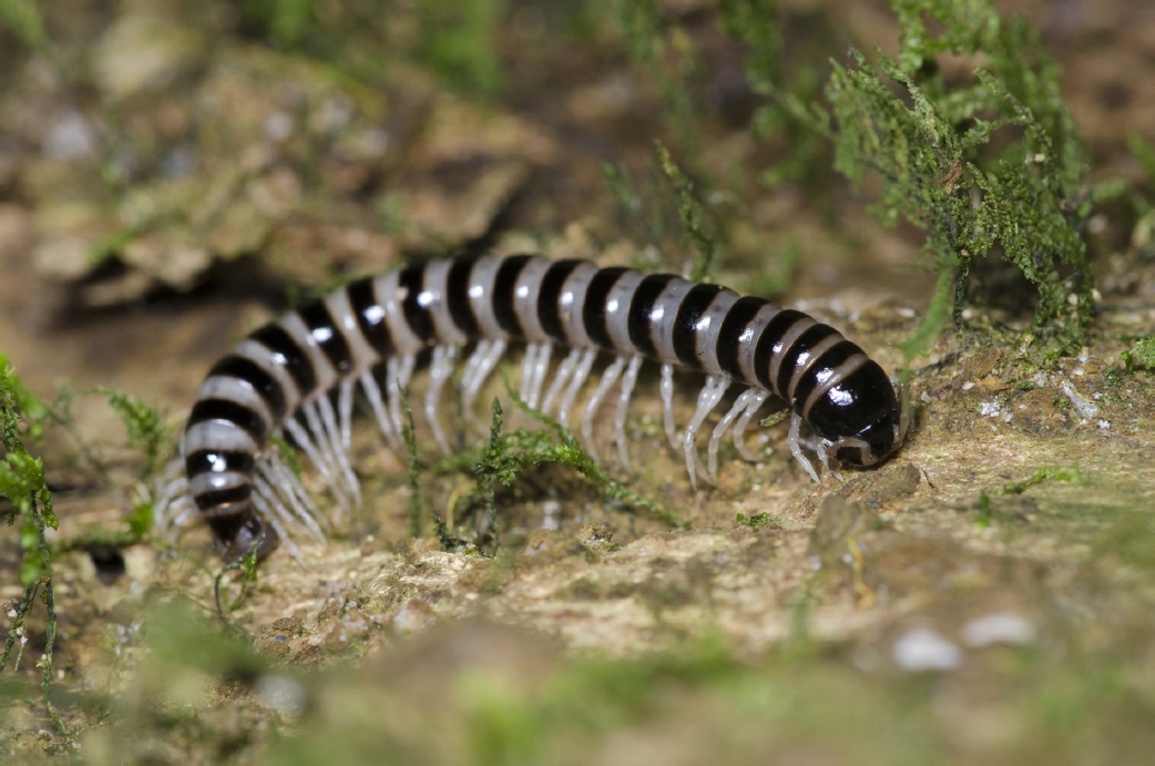 Eviulisoma zebra, a strikingly marked millipede species from the Udzungwa Mountains, Tanzania